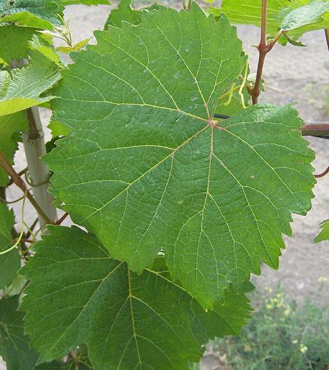 Malbec grape leaves taken at Hedges Vineyard in Benton City, Washington, in the Red Mountain AVA. Photo taken on Sunday, June 10, 2007 with a Kodak z650 camera.